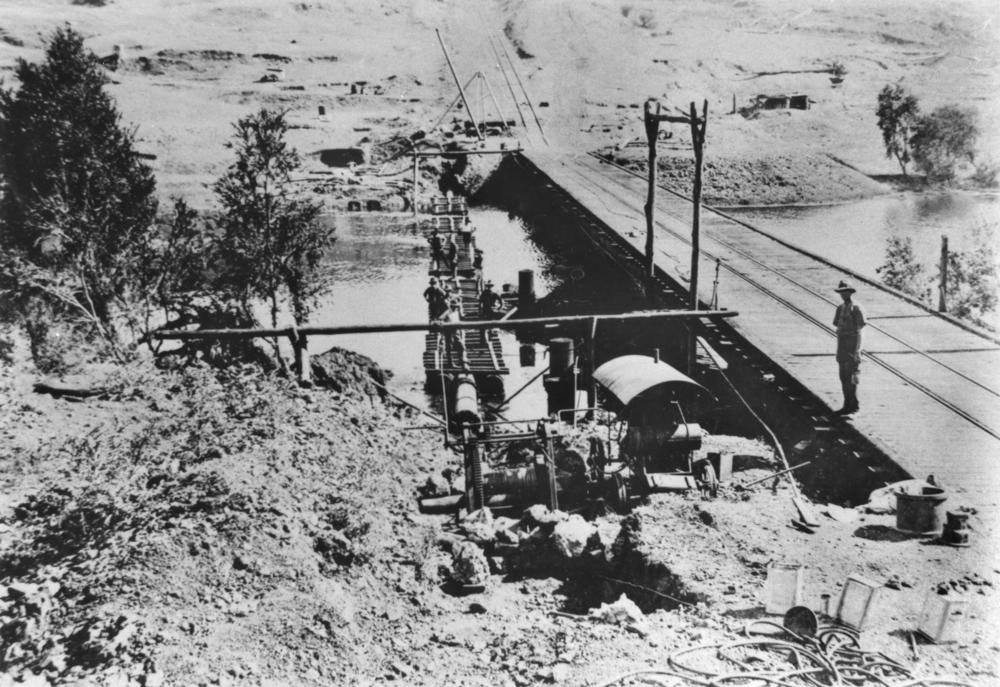 Kholo main pipeline being laid, Brisbane River at Mount Crosby, 1922. Second bridge built over the Brisbane River at Mount Crosby. (Description supplied with photograph.).